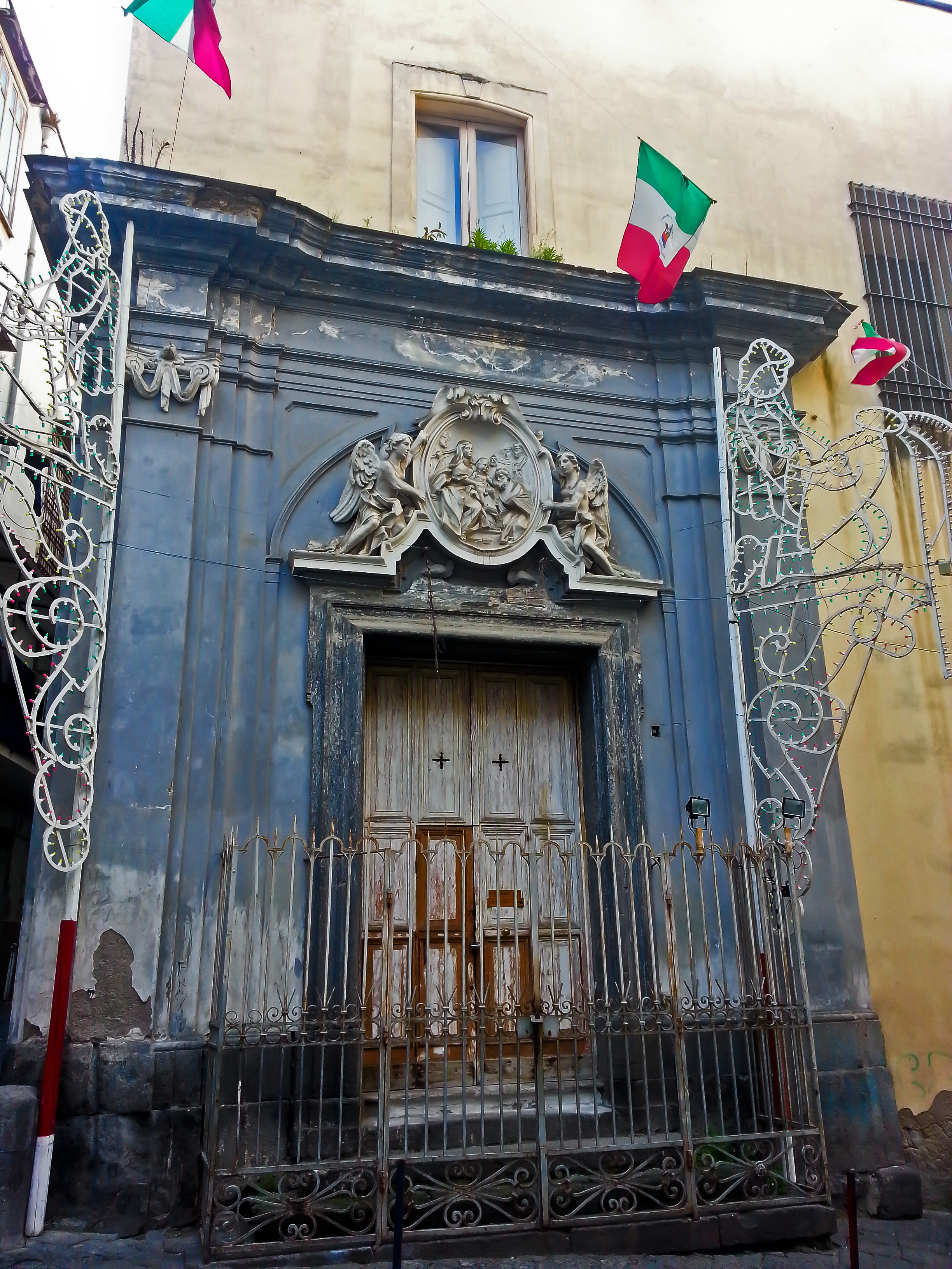 Chiesa di Santa Maria della Consolazione: Facade